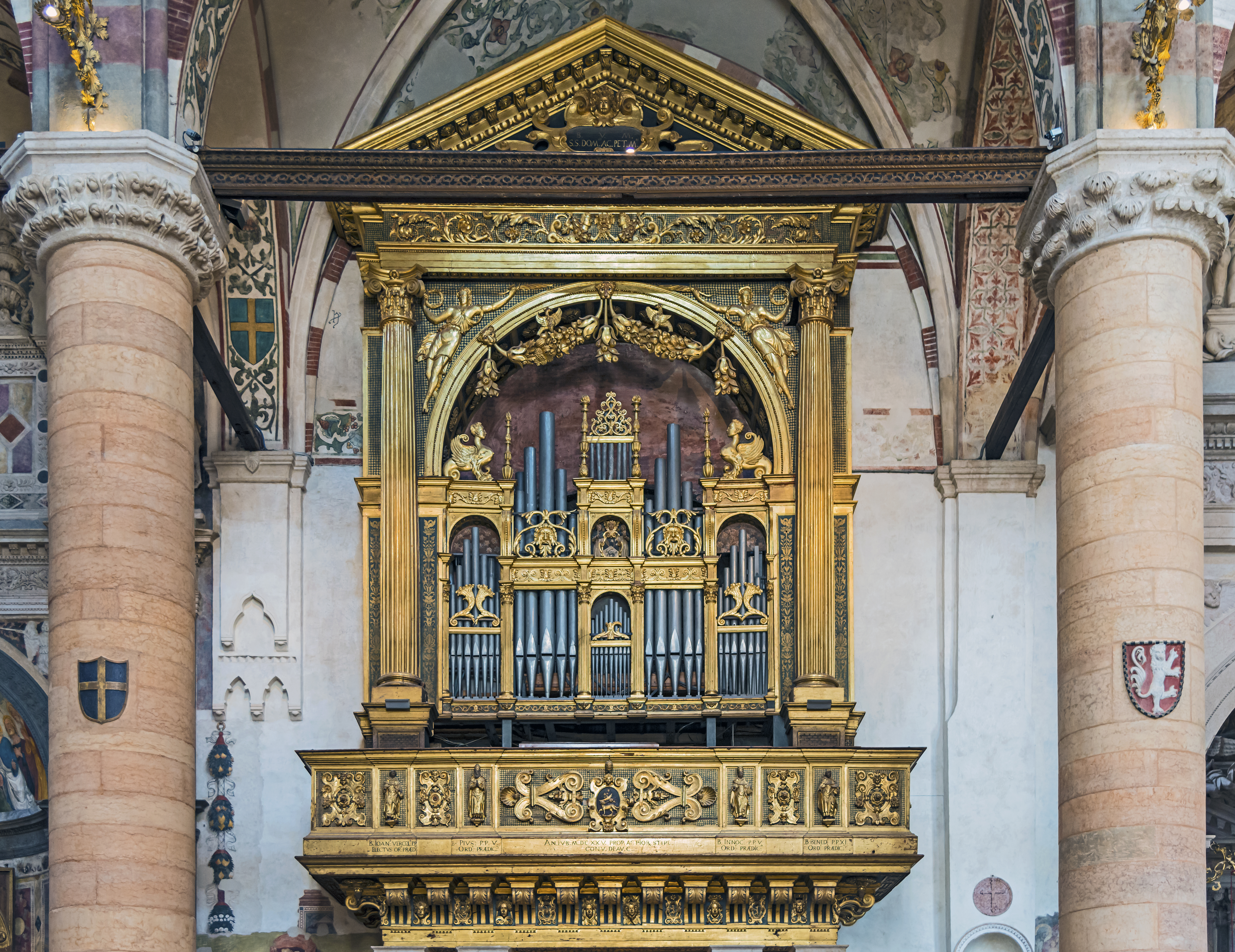 Basilica Santa Anastasia. The organ was built in 1625. Buffet by Andrea Scudellino represents popes and Dominican saints. The mechanism is the organ builder Domenico Farinatide of Verona.